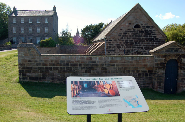 Gunpowder magazine, Berwick-upon-Tweed The information board tells us that this was built in about 1750 as a gunpowder store for the garrison.